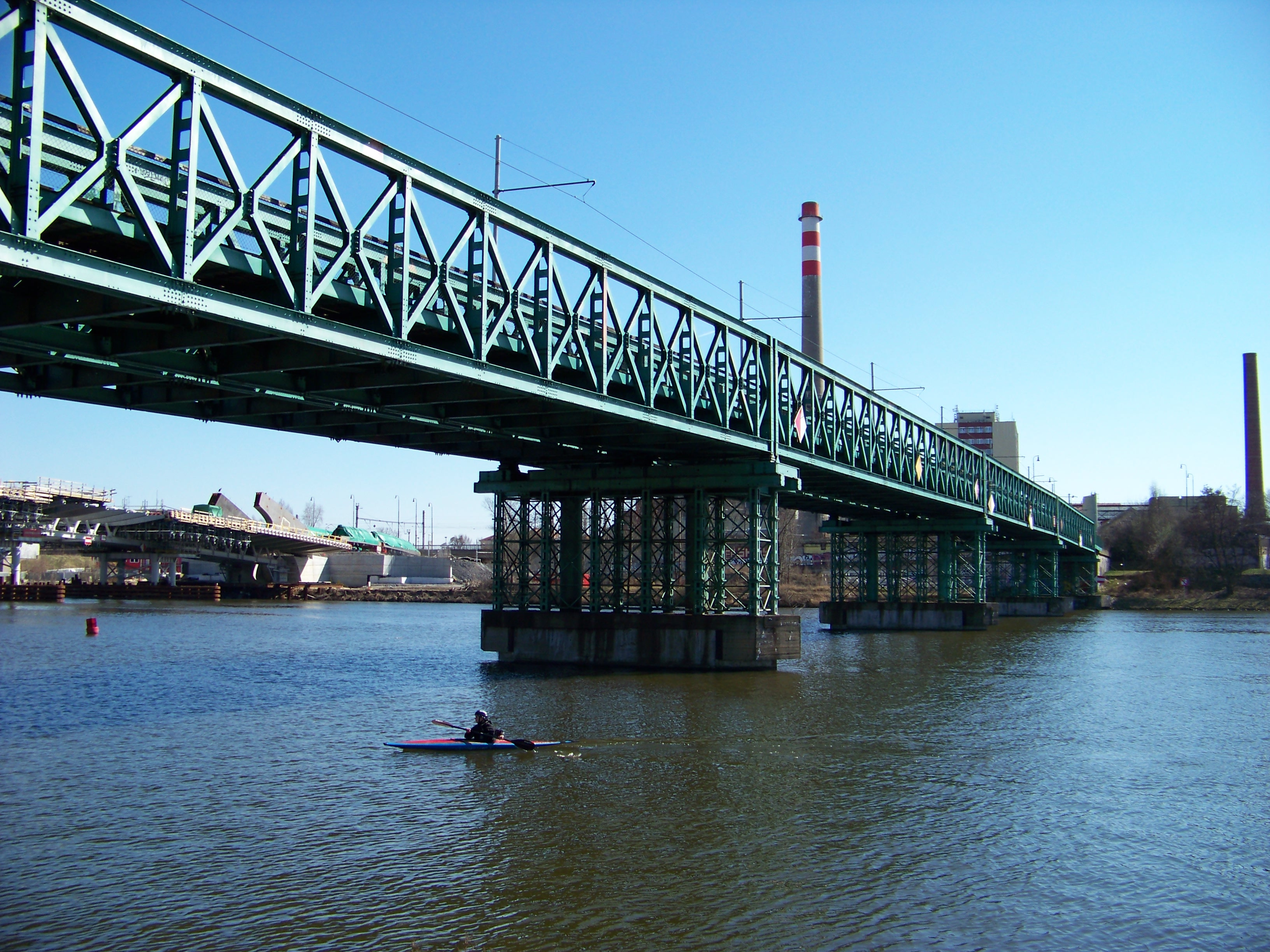 Prague-Troja, the Czech Republic. Vodácká, bridges over the Vltava.